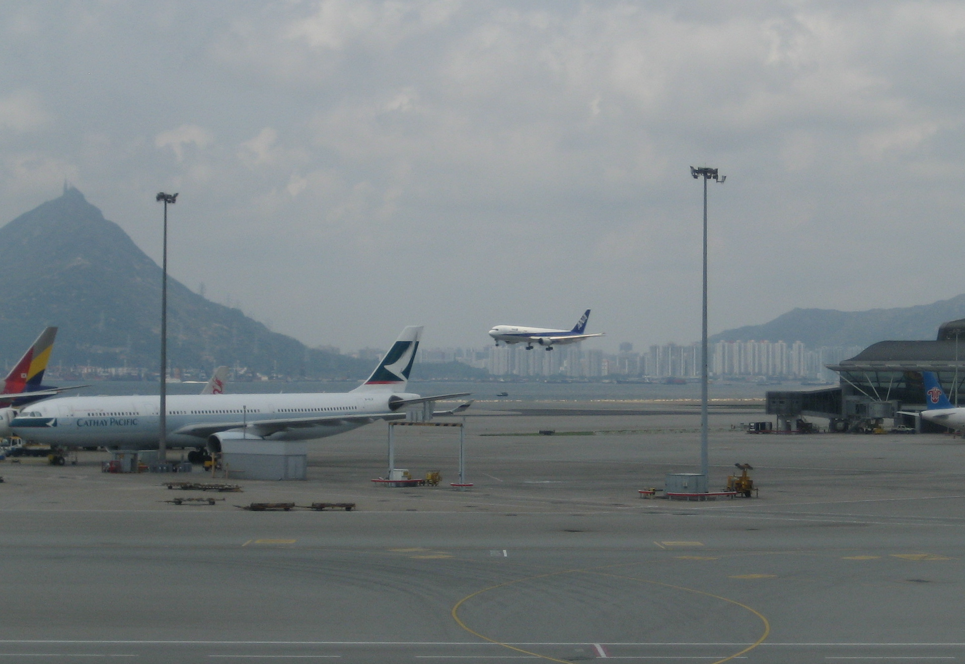 ANA B767 landing on HKG's north runway with a Cathay Pacific A330 in the foreground.